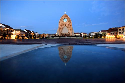 Ave Maria University. The Oratory is the center of the town of Ave Maria.